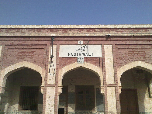 This is historic railways station of Faqirwali. Train doesn't arrive anymore but station is still in place, though poorly maintained.